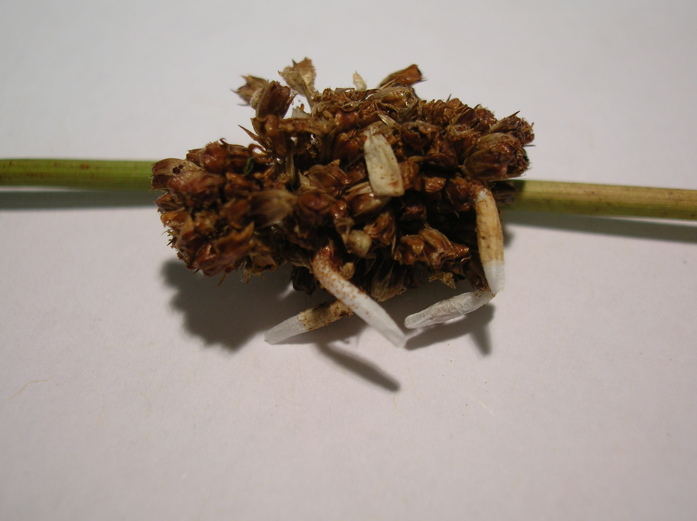 The moth Coleophora caespitiella pupal cases on Juncus effusus. North Ayrshire, Scotland.